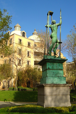 Statue "El Rey" ("The King"), ITESM-CCM in Mexico City.